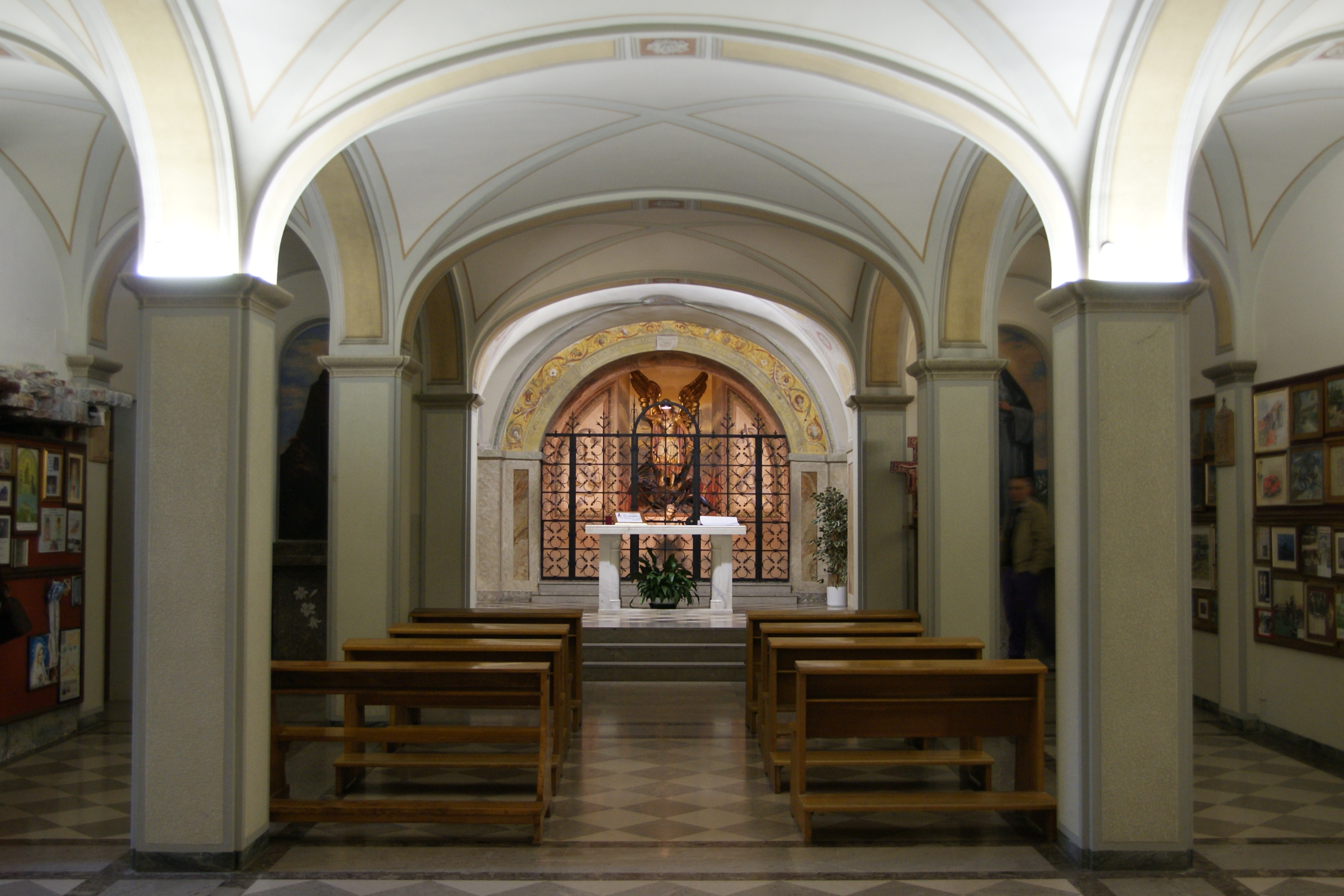 Crypt of Castelmonte near Cividale del Friuli, Friuli-Venezia Giulia